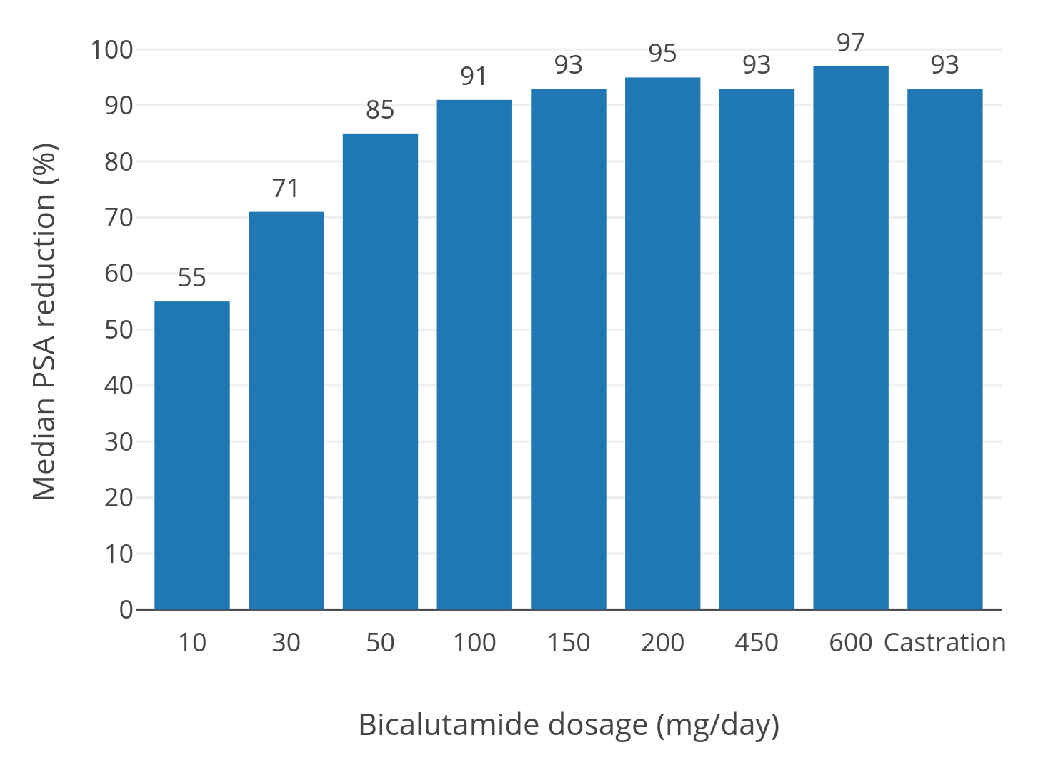 Median prostate-specific antigen (PSA) reduction (%) with bicalutamide monotherapy at dosages of 10, 30, 50, 100 150, 200, 450, and 600 mg/day and with castration monotherapy. Source: (April 1999). "Bicalutamide dosages used in the treatment of prostate cancer". Prostate 39 (1): 47–53. 10.1002/(SICI)1097-0045(19990401)39:1 3.0.CO;2-X. PMID 10221266.